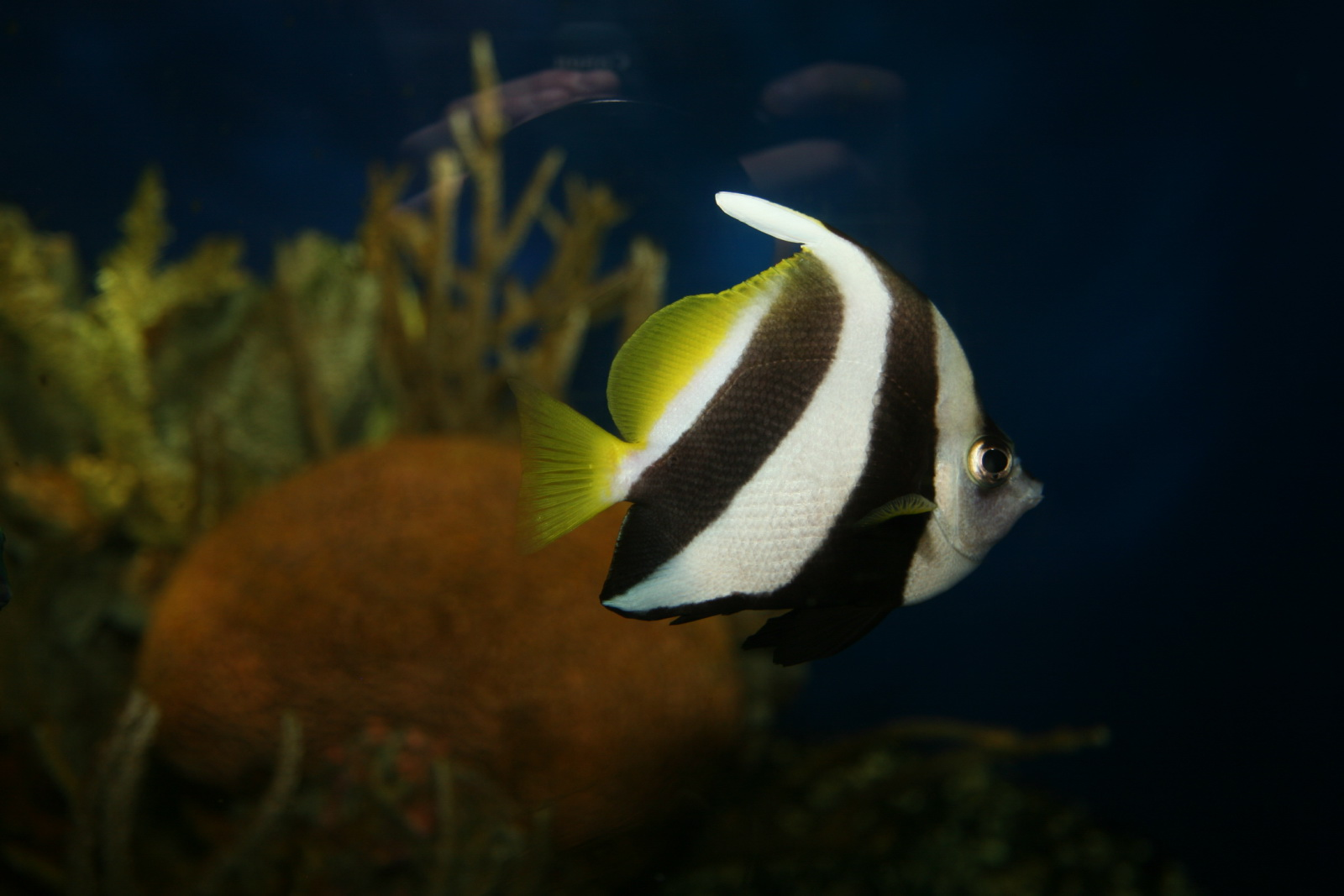 Adult Longfin Bannerfish have a long tapering dorsal filament. The body is white with two broad black bands. The soft dorsal and caudal fins are yellow. This species grows to 25 cm in length. It eats zooplankton and bottom-living invertebrates. The Longfin Bannerfish is usually found at depths from 2 m to 75 m, in sheltered coastal bays and coral reef waters. It occurs throughout the tropical Indo-West and Central Pacific.